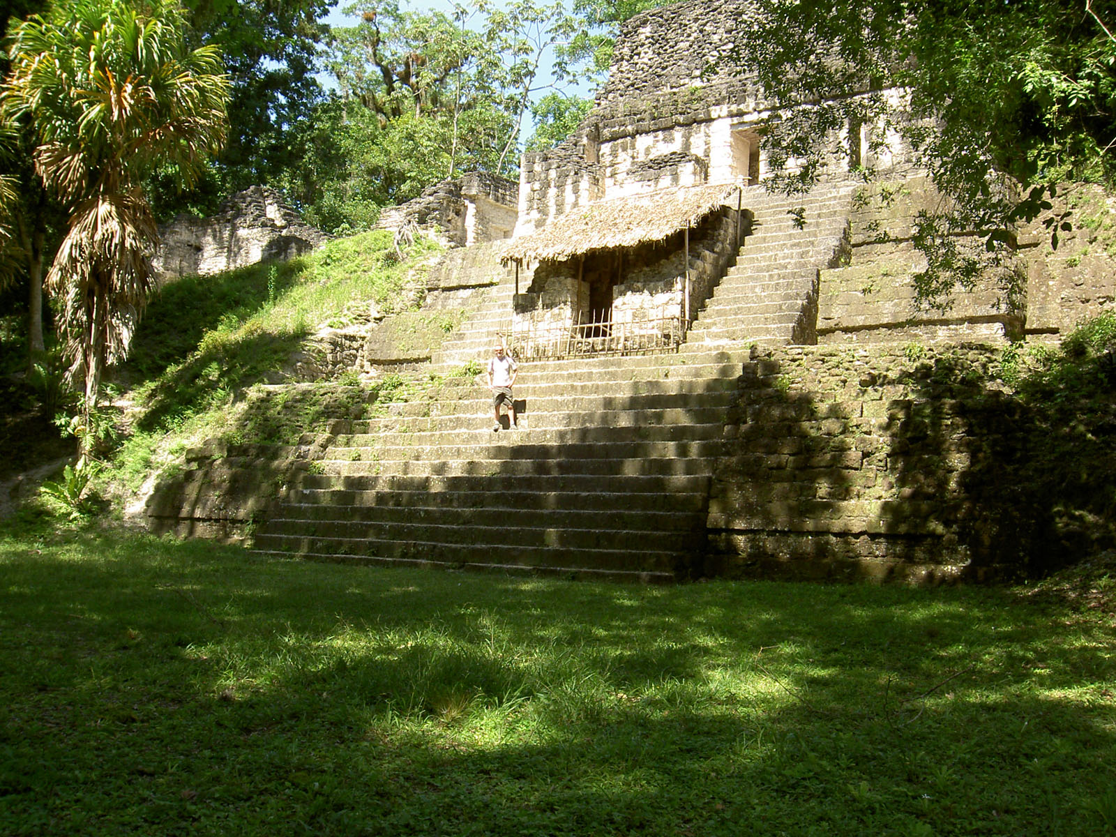 West face of the East Platform of the Lost World complex, with the restored facade of Temple 5D-87, the Temple of the Skulls. Tikal, Guatemala.